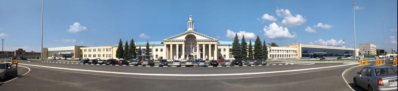 Chelyabinsk Balandino Airport, Russia